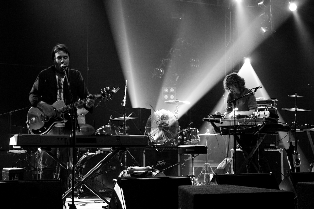 Camilla Wynn Ingr and Spencer Krug from Sunset Rubdown. 2009/04/24 - Krems/Austria.